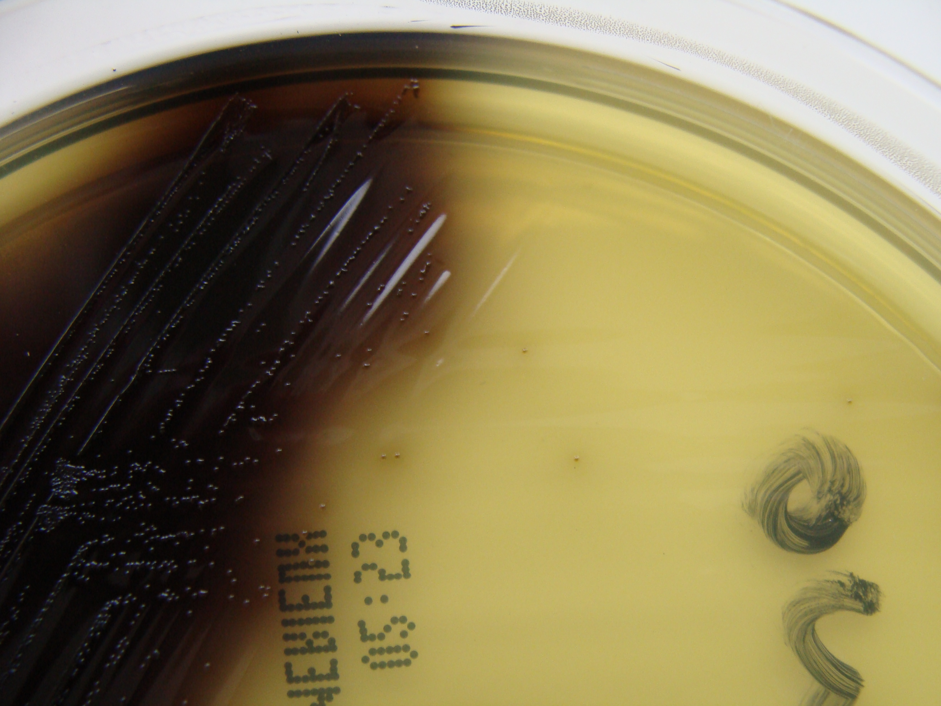 Listeria monocytogenes - Oxford Listeria Agar